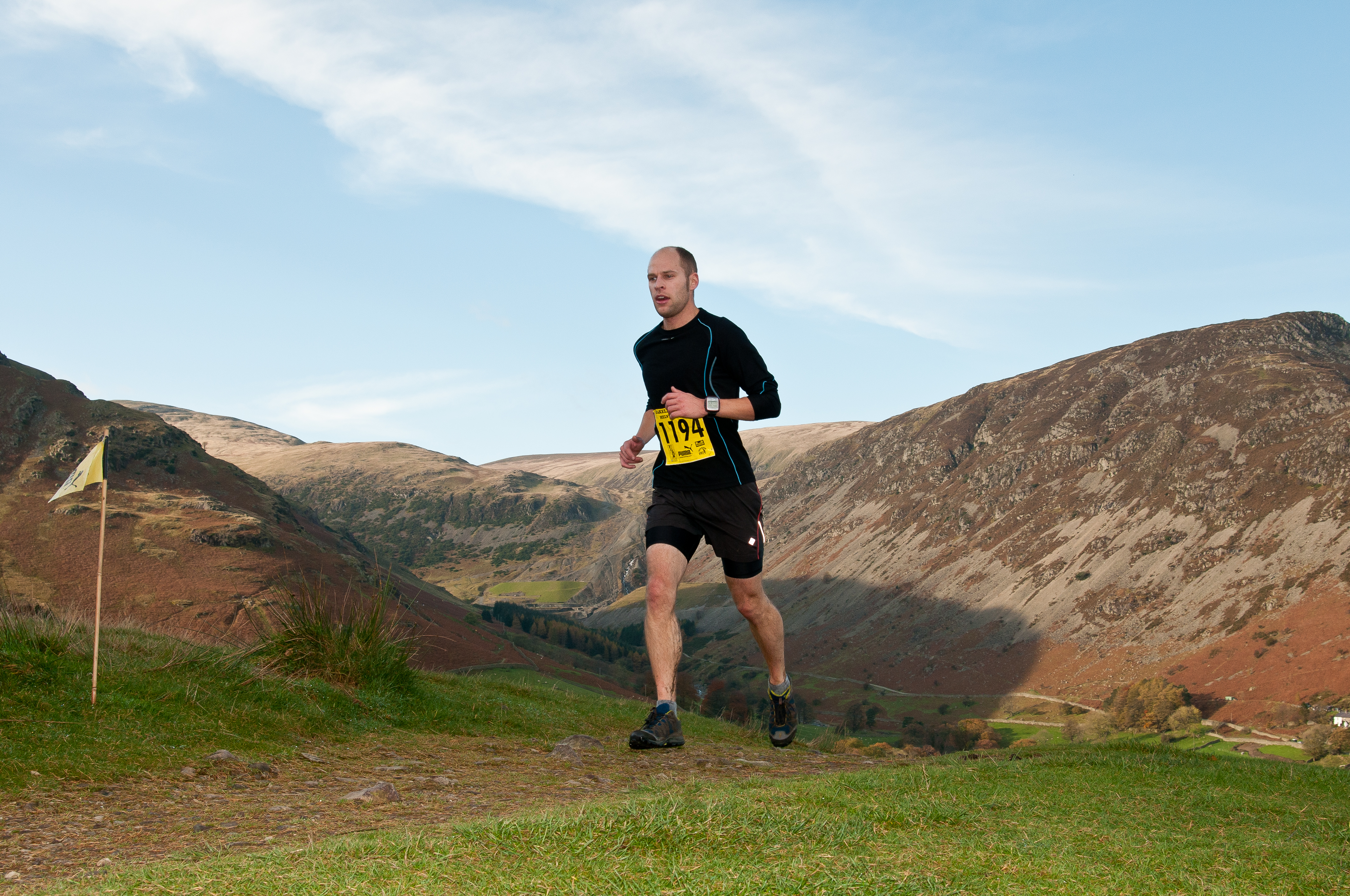 Competitor completes climb out of the first of the first valley, at the half-way point on the Helvellyn Trail race. Saturday 5 November 2011.